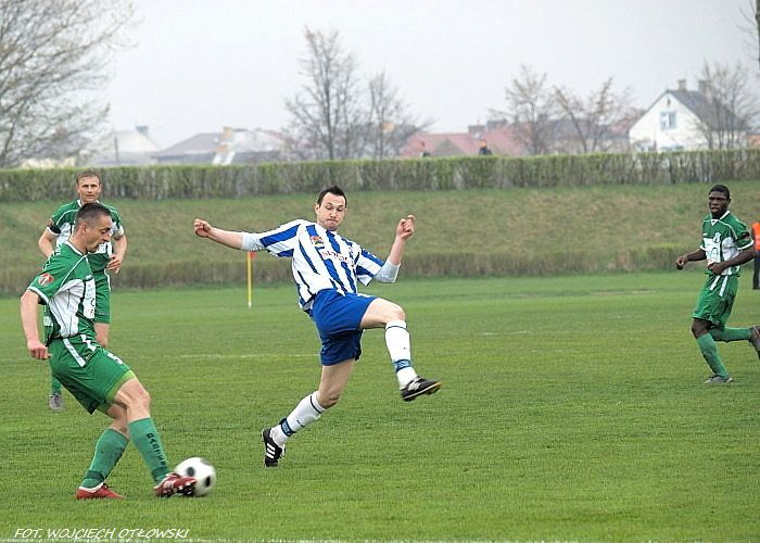 Wigry Suwałki against Sokol - season 2009/10. Wigry's player - Daniel Ołowniuk.